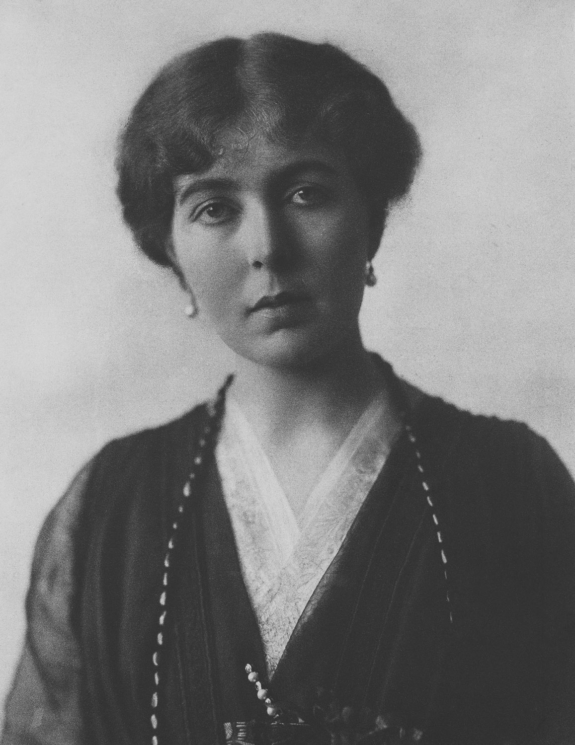 Crown Princess Margareta of Connaught, Duchess of Scania